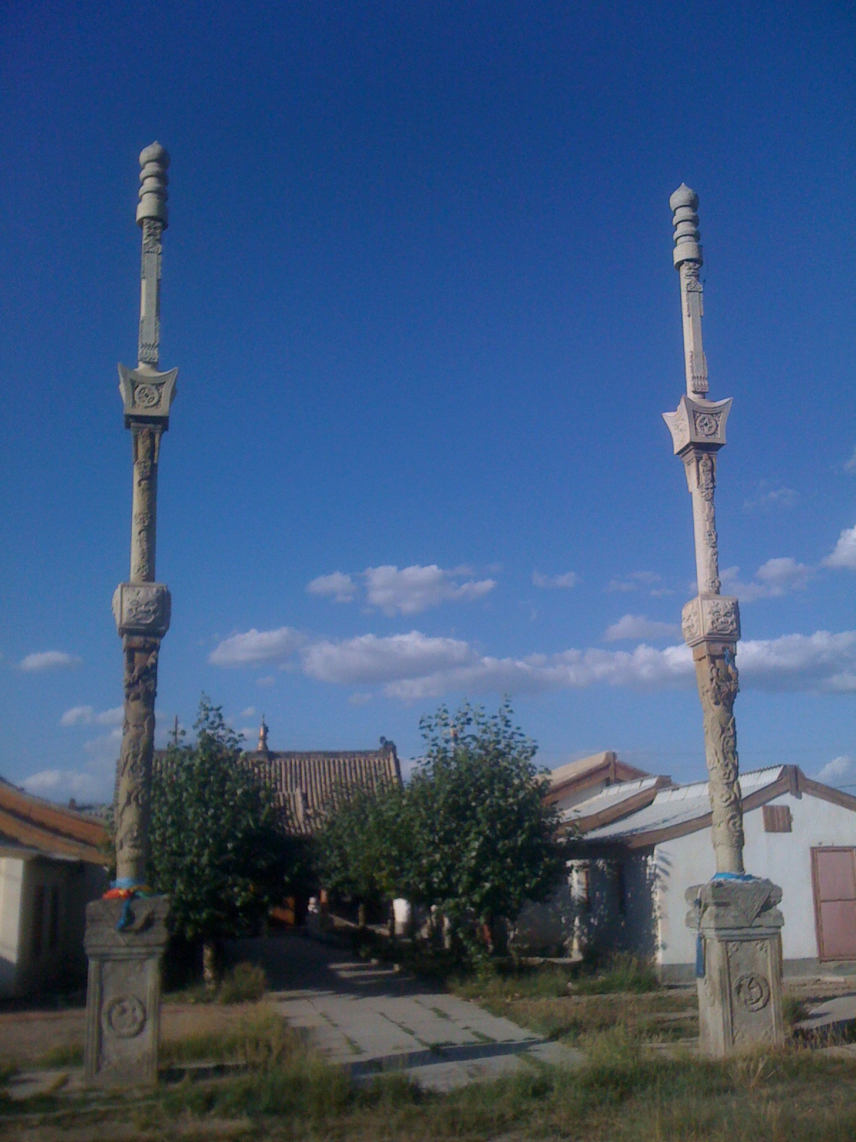 Two columns of Tara Mother Monastery which were given by Qianlong Emperor to Outer Mongolia and built in 1753.